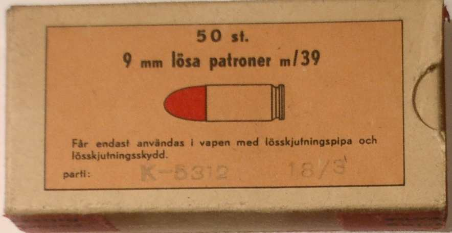 A box of 9mm m/39 blanks.